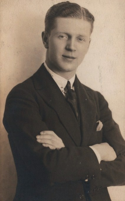 american stage & film actor Gavin Muir - original image cropped (see source)